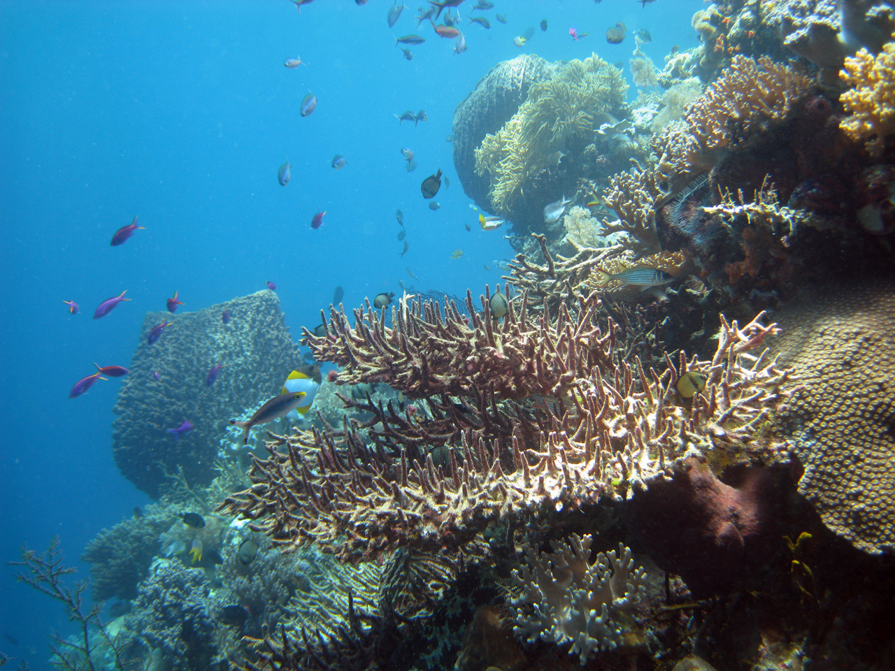 Coral Reef